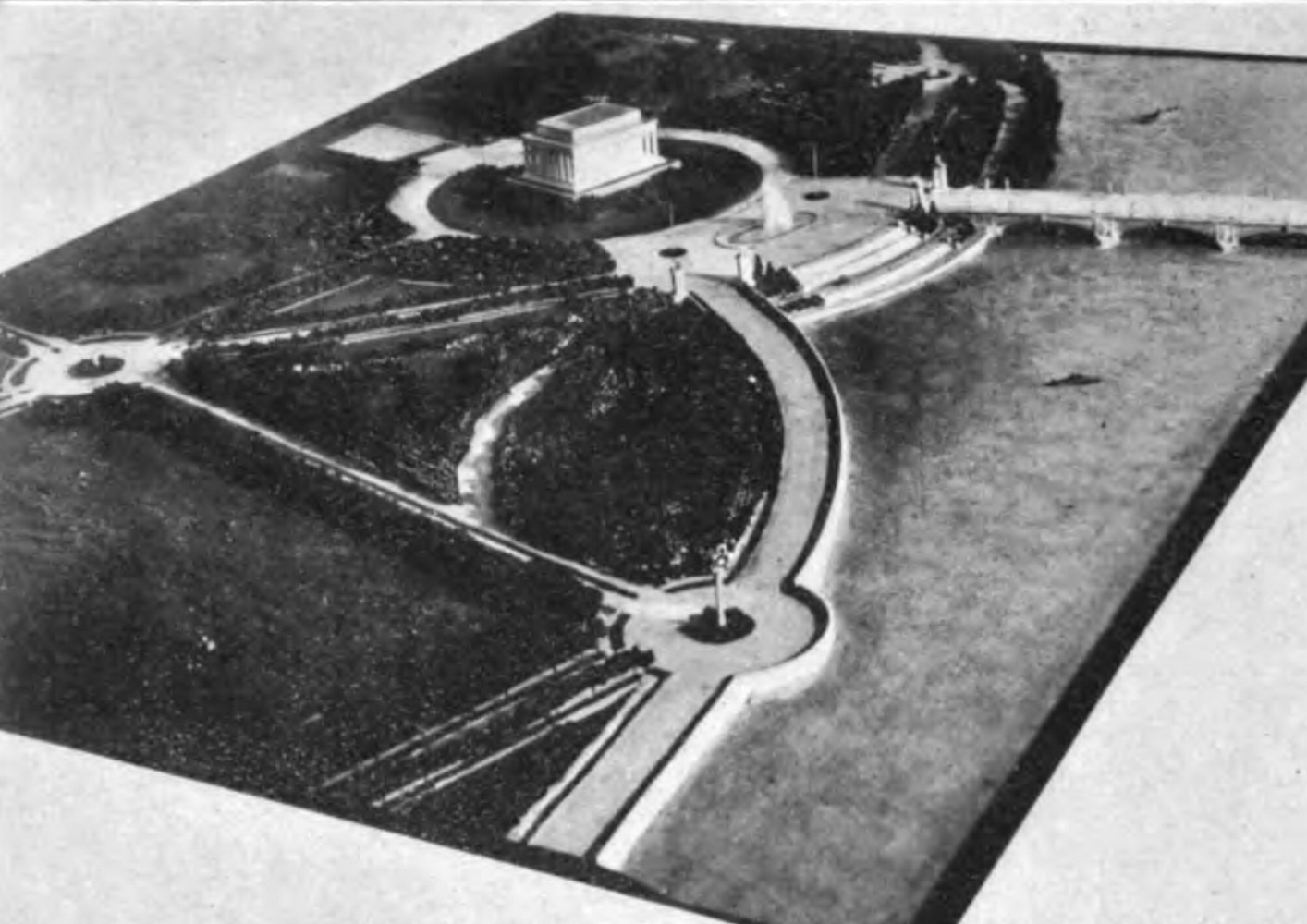 Model of the proposed Washington, D.C., approaches to the Arlington Memorial Bridge. The Rock Creek and Potomac Parkway enters from the bottom, center. Constitution Avenue proceeds to the upper left from the bottom-center traffic circle. A grand plaza with fountain occupies the spot east of the Lincoln Memorial, and links to the traffic circle surrounding the memorial. Ohio Drive Southwest exits the plaza through a heavily forested area near the top of the image (just right of center). A "watergate" of steps extends down from the east plaza to the Potomac River. The bridge, with its tall pylons and statuary atop each pier, extends to the right. This model can be dated to 1926. The Arlington Memorial Bridge Commission proposed placing the parkway in an underpass beneath the bridge in 1927. The proposed plan for these eastern approaches would be significantly altered for aesthetic and budgetary reasons by the time construction began in 1928.